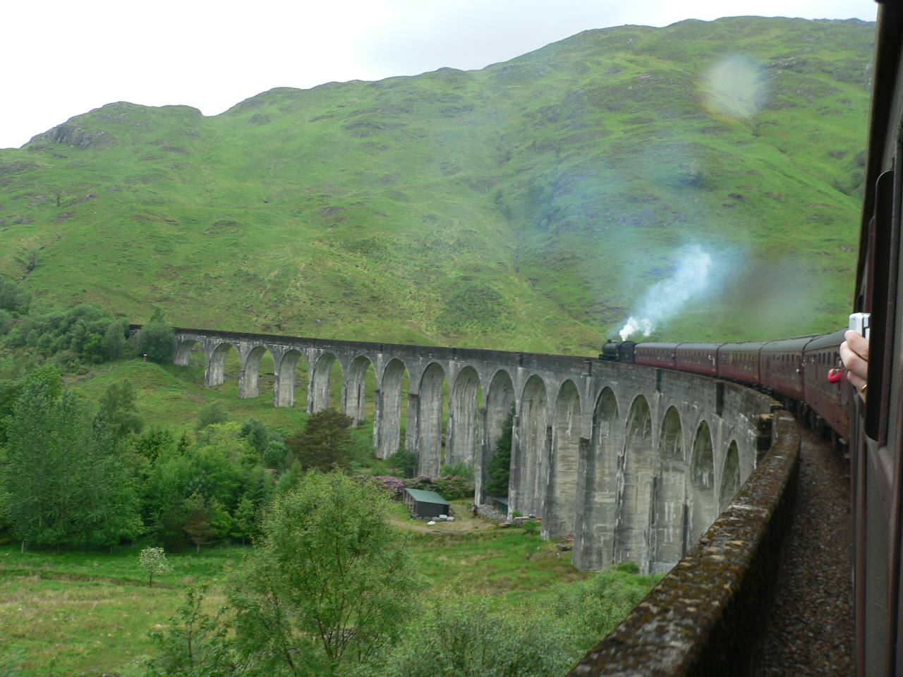 The Glenfinnan Viaduct, used in at least one of the Harry Potter films, seen from the last carriage of The Jacobite steam service on the West Highland Line from Fort William to Mallaig, hauled by LNER B1 4-6-0 locomotive 61264.